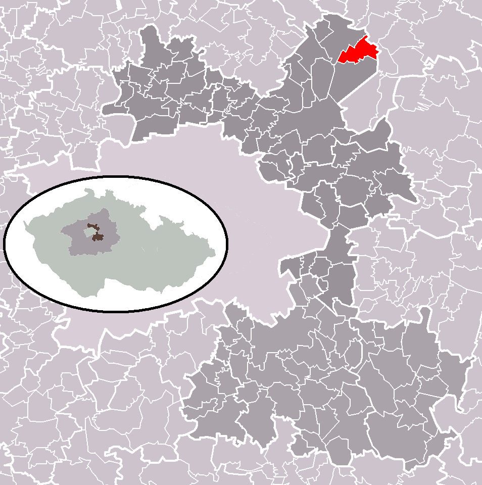 Location of Kostelní Hlavno municipality within Prague-East District and administrative area of Brandýs nad Labem-Stará Boleslav as a Municipality with Extended Competence.